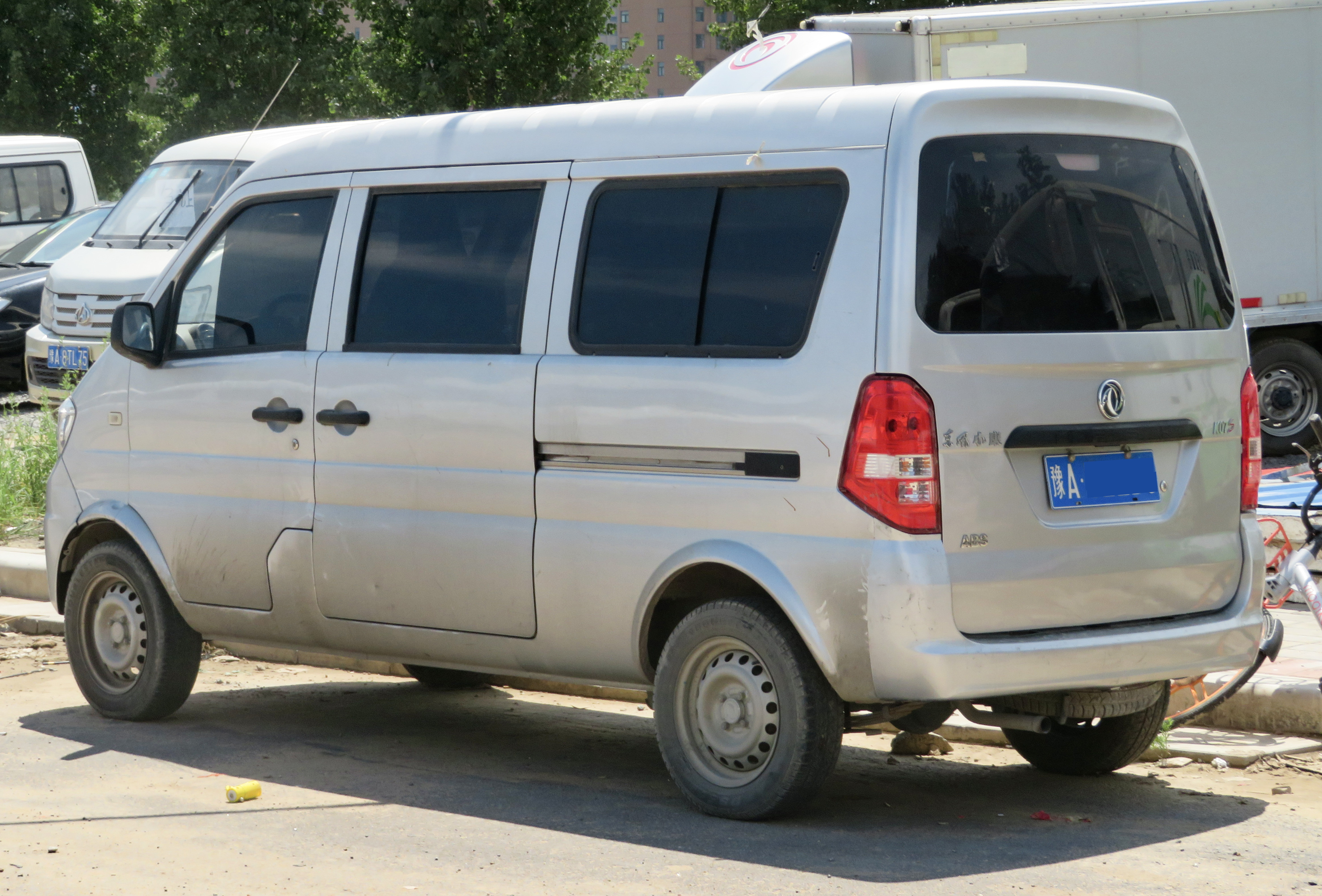 A 2016 Dongfeng-Xiaokang (Sokon) K07S photographed at a used car market in Zhengzhou, Henan province, China